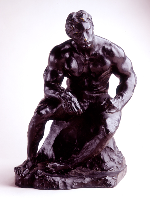 The Athlete